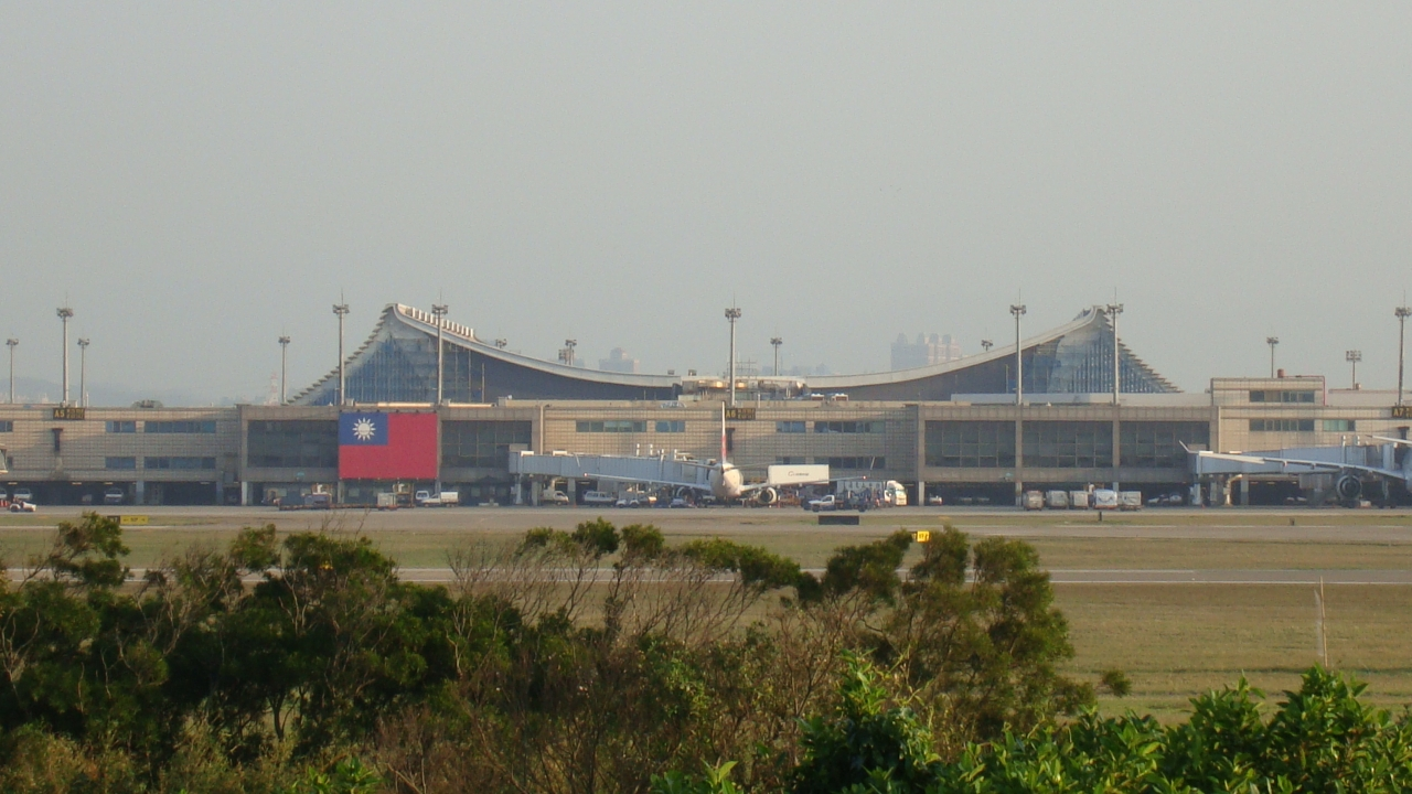 Taoyuan International Airport's Terminal NO.1 Landscape.